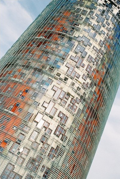 Torre Agbar in Barcelona, Spain